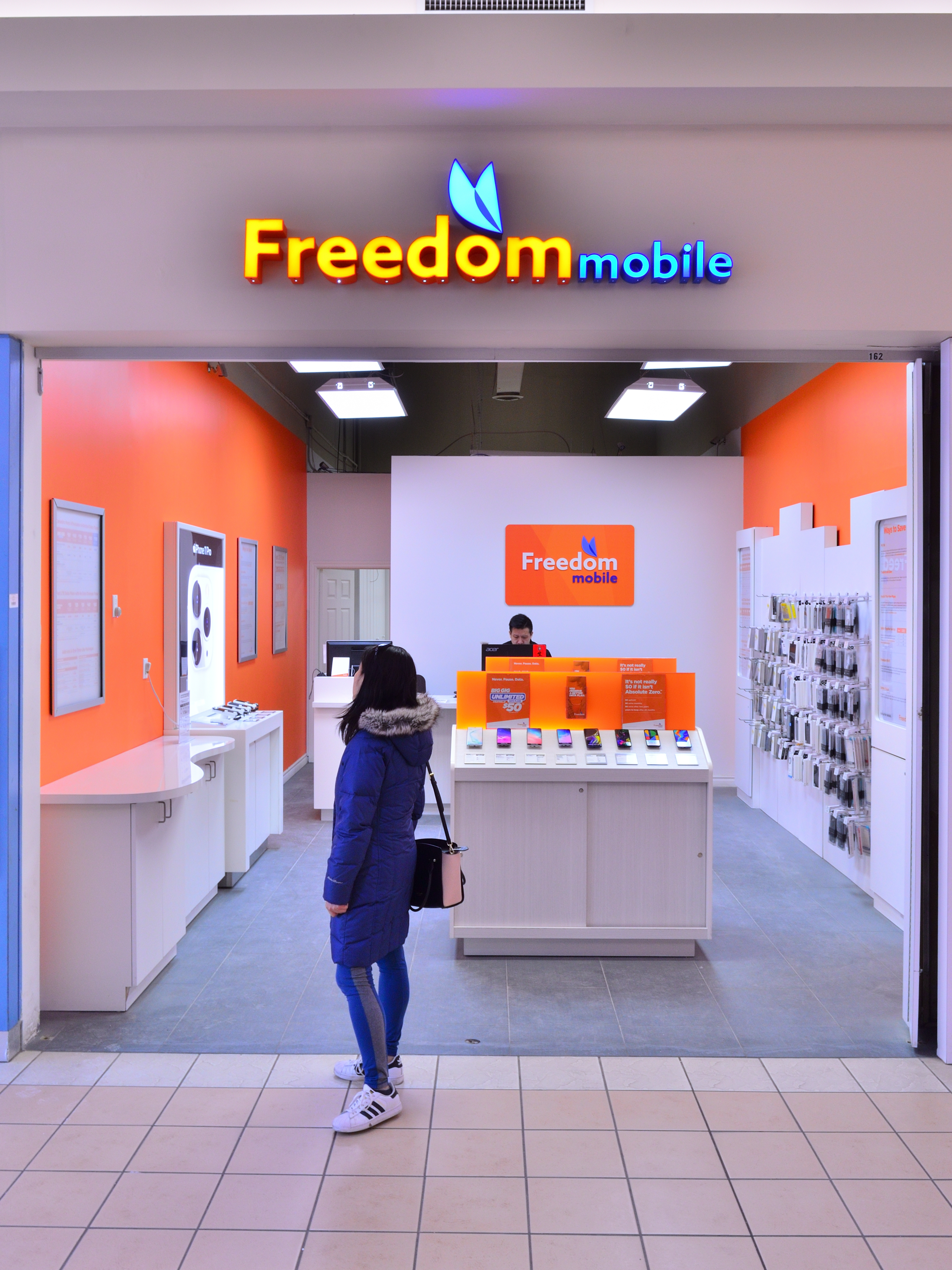 Freedom Mobile at First Markham Place